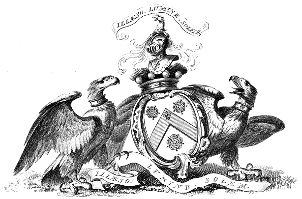 Source: English Peerage, Charles Catton 1790